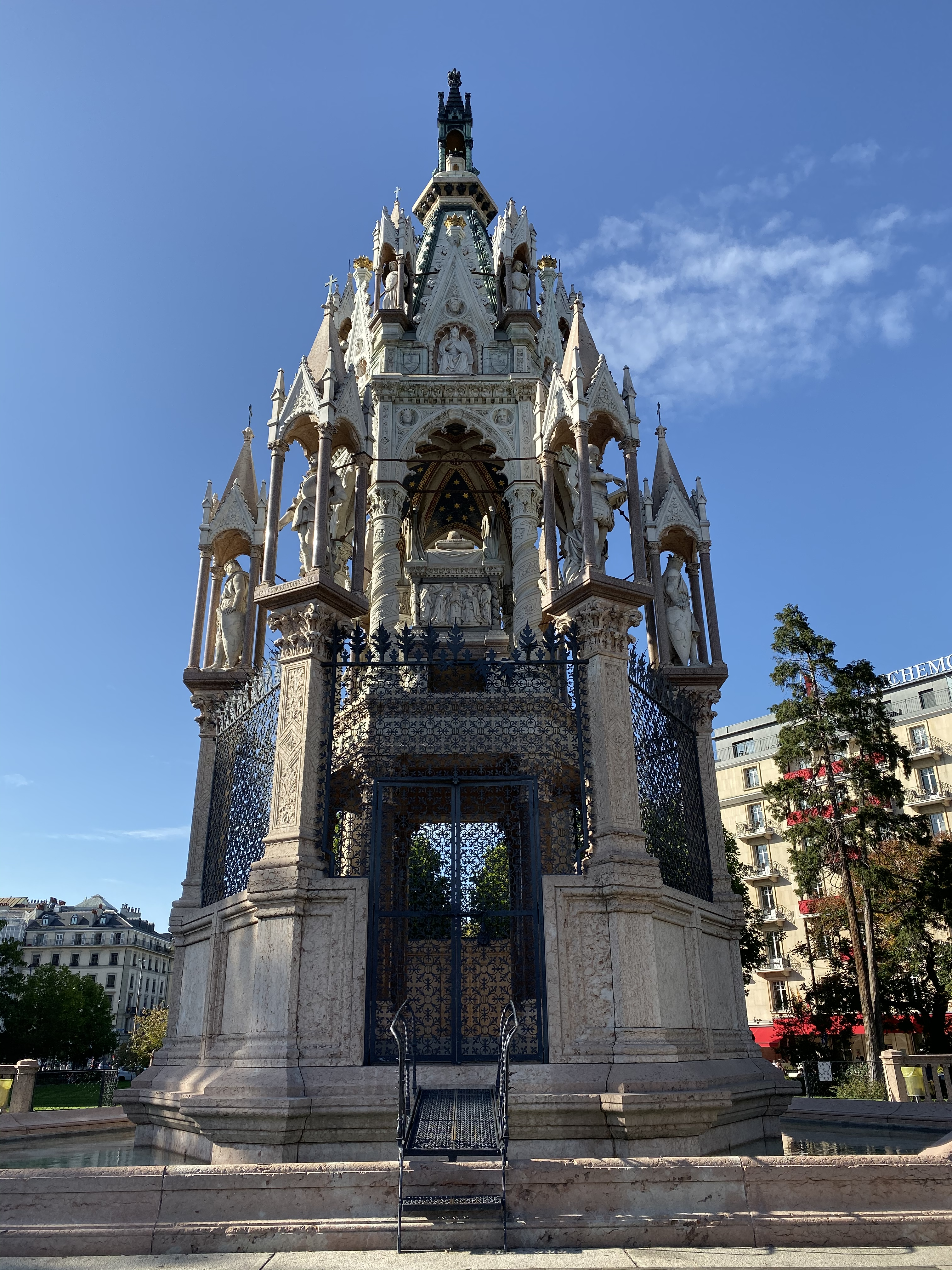 A frontal image of the Brunswick Monument in Geneva. Taken in October of 2019